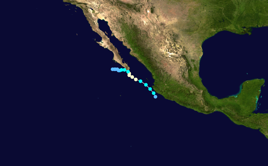 Hurricane Greg (1999) track. Uses the color scheme from the Saffir-Simpson Hurricane Scale.